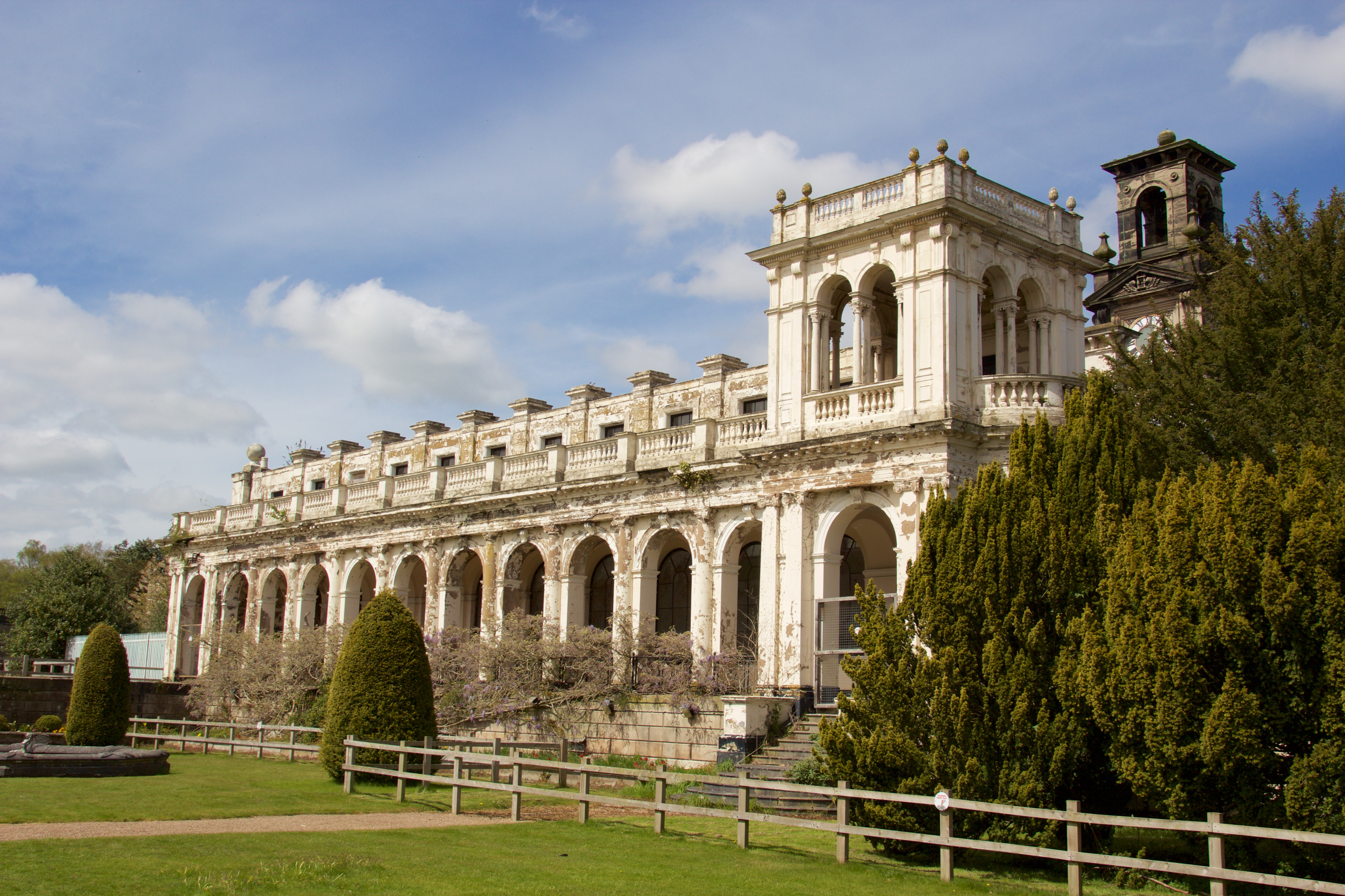 Tretham Gardens, Staffordshire